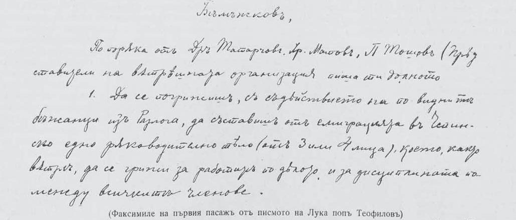 A letter from Luka Popteofilov to Nikola Belezhkov.